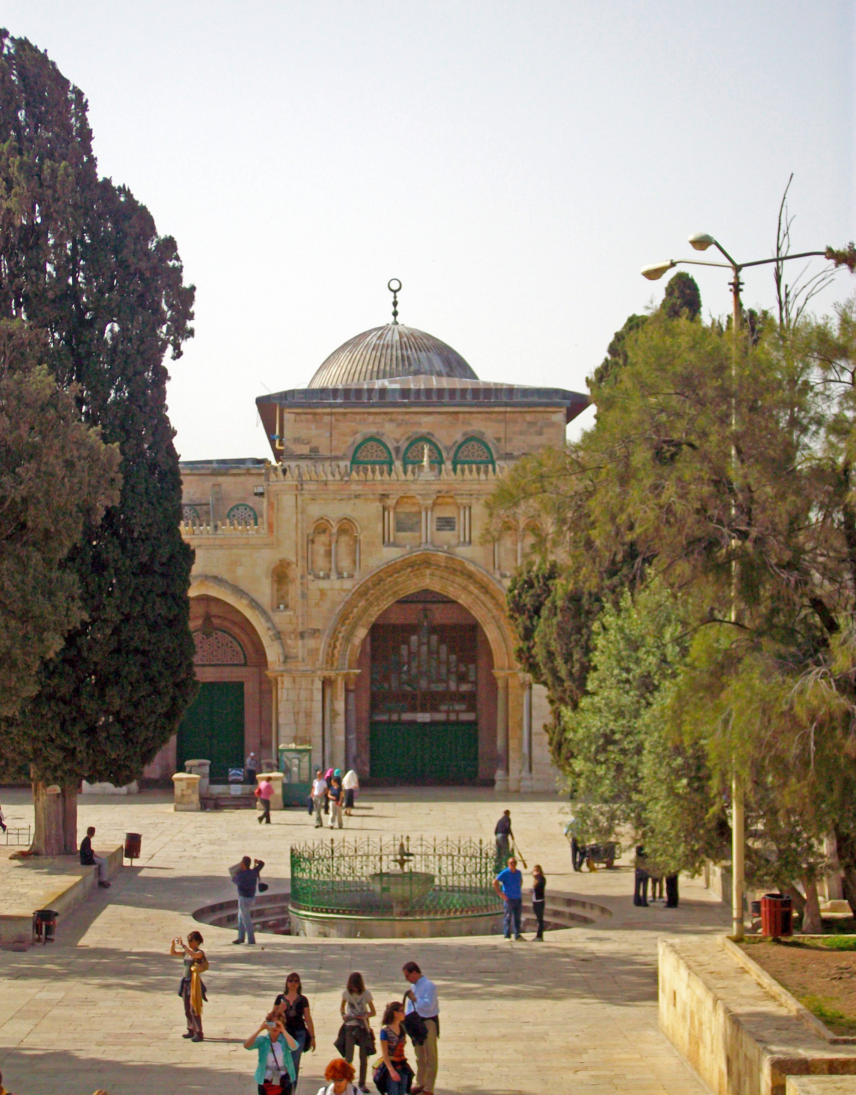 Al-Aqsa Mosque from the steps up to the Dome of the Rock